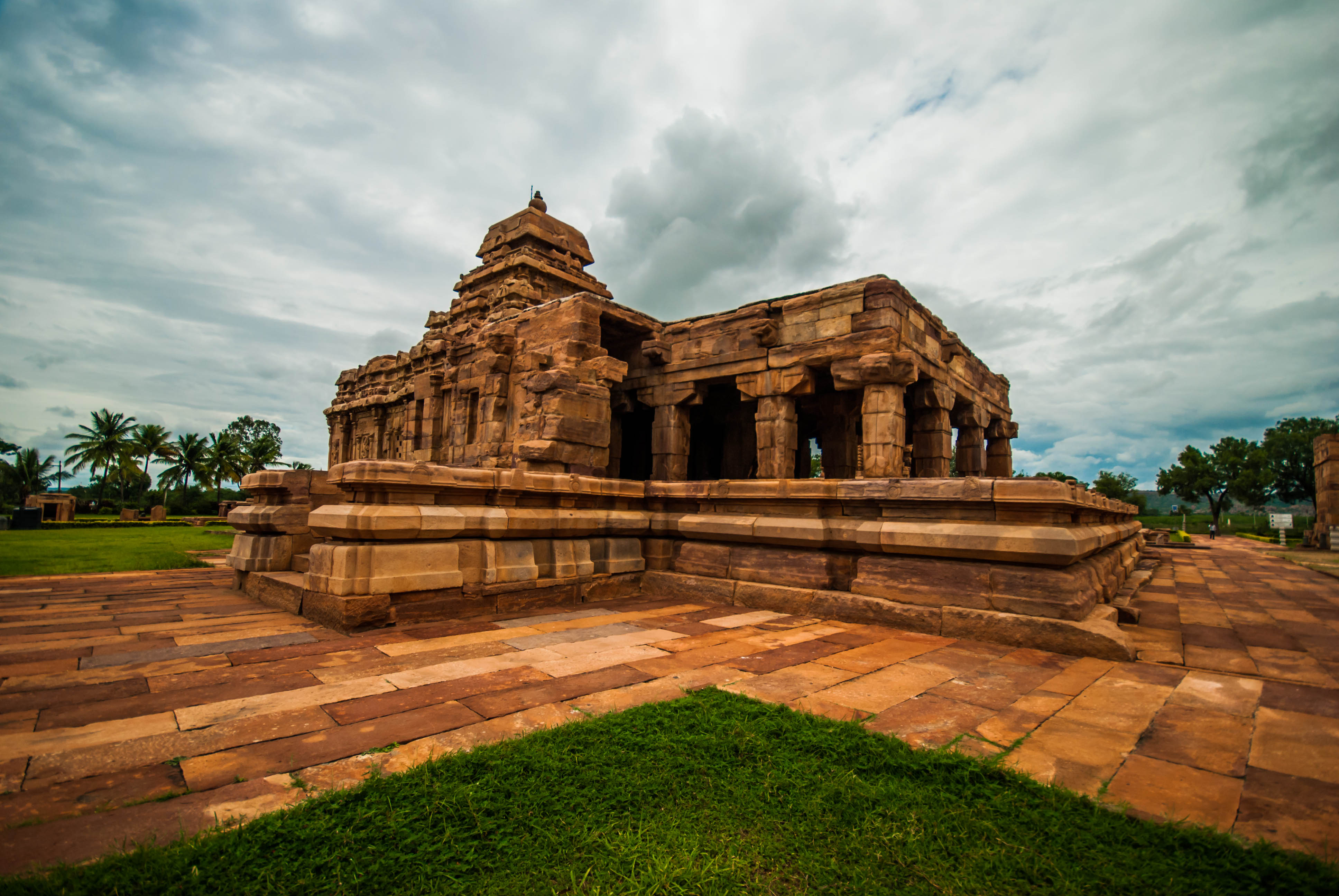 Mallikarjuna Temple was built by King Vikramadiyta's second queen Trilokyamahadevi in 745. Mallikarjuna was formerly known as Trailokeshvara which is situated just next to Virupaksha temple.This temple is also was constructed by Rani Trilokyamahadevi to celebrate the victory (by Vikramaditya II) over the Pallavas.